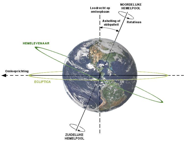 Description of relations between Axial tilt (or Obliquity), rotation axis, plane of orbit, celestial equator and ecliptic. Earth is shown as viewed from the Sun; the orbit direction is counter-clockwise (to the left). This is a copy of AxialTiltObliquity.png with labels in Dutch.